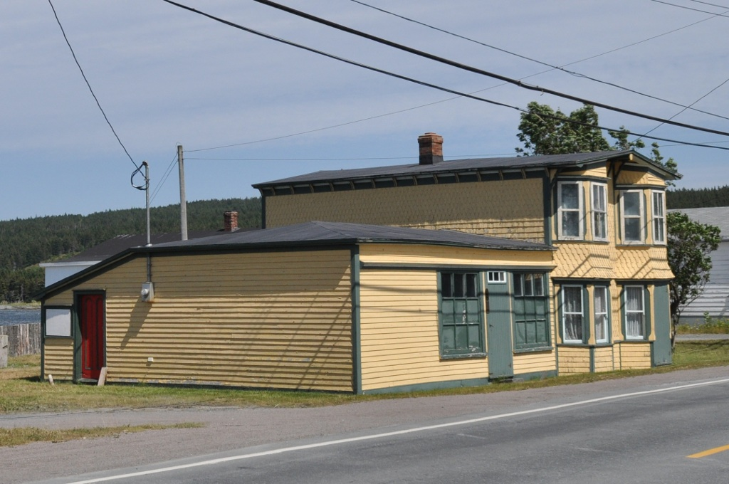 Winter Home, Clarke's Beach, Newfoundland.